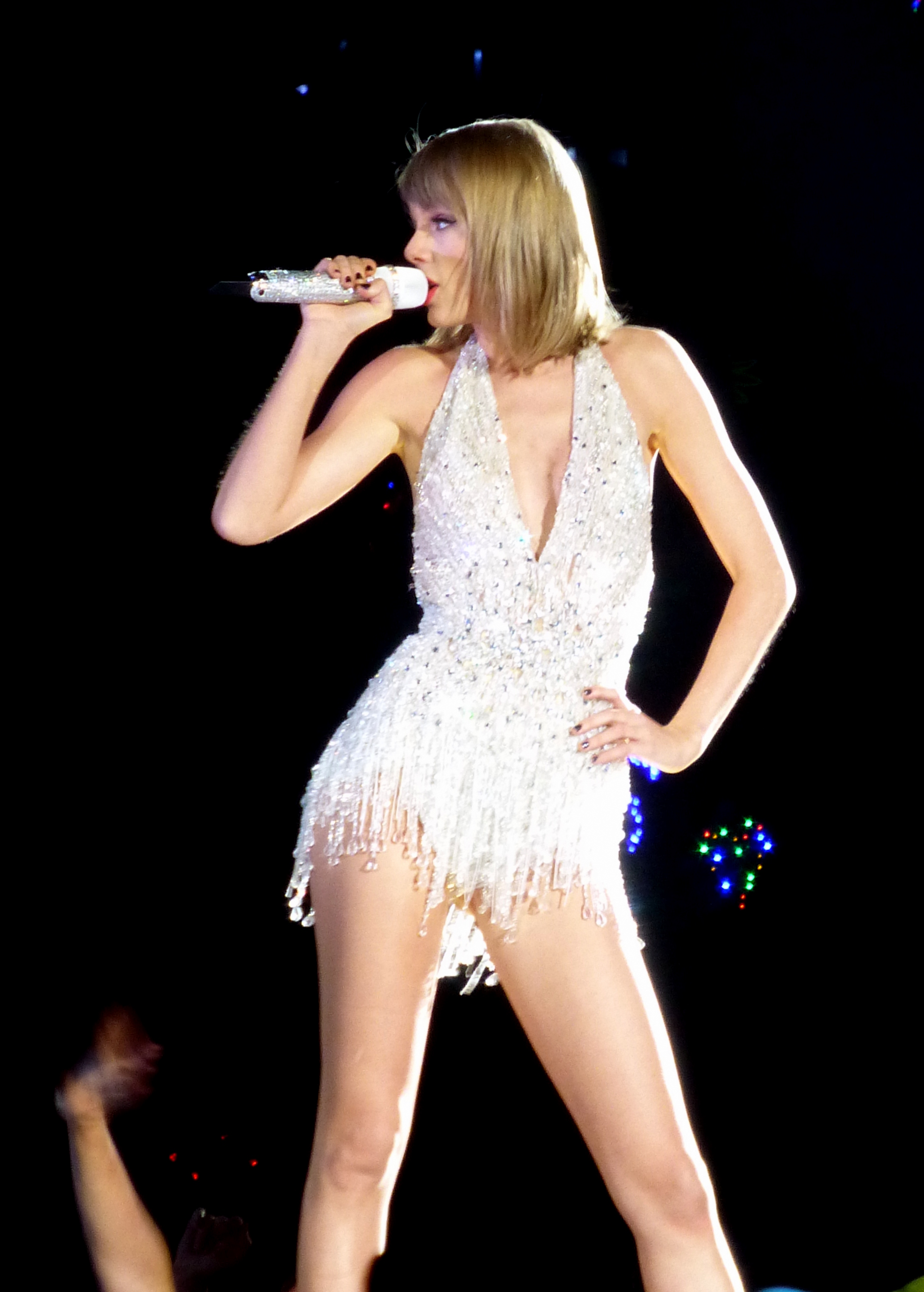 Taylor Swift 1989 Tour at Ford Field in Detroit, 5/30/15